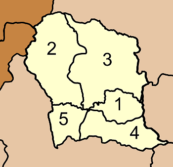 Map of Phipun district, Nakhon Si Thammarat province, Thailand, with the communes (tambon) numbered. Phipun (พิปูน) Ka Thun (กะทูน) Khao Phra (เขาพระ) Yang Khom (ยางค้อม) Khuan Klang (ควนกลาง)